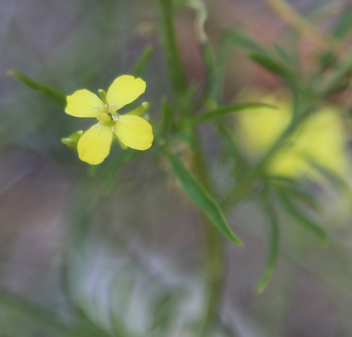 Tumblemustard (Sisymbrium altissimum) 4-fold yellow flower, close. At 7400ft, start of Pine Creek trail, Eastern Sierra, California USA.